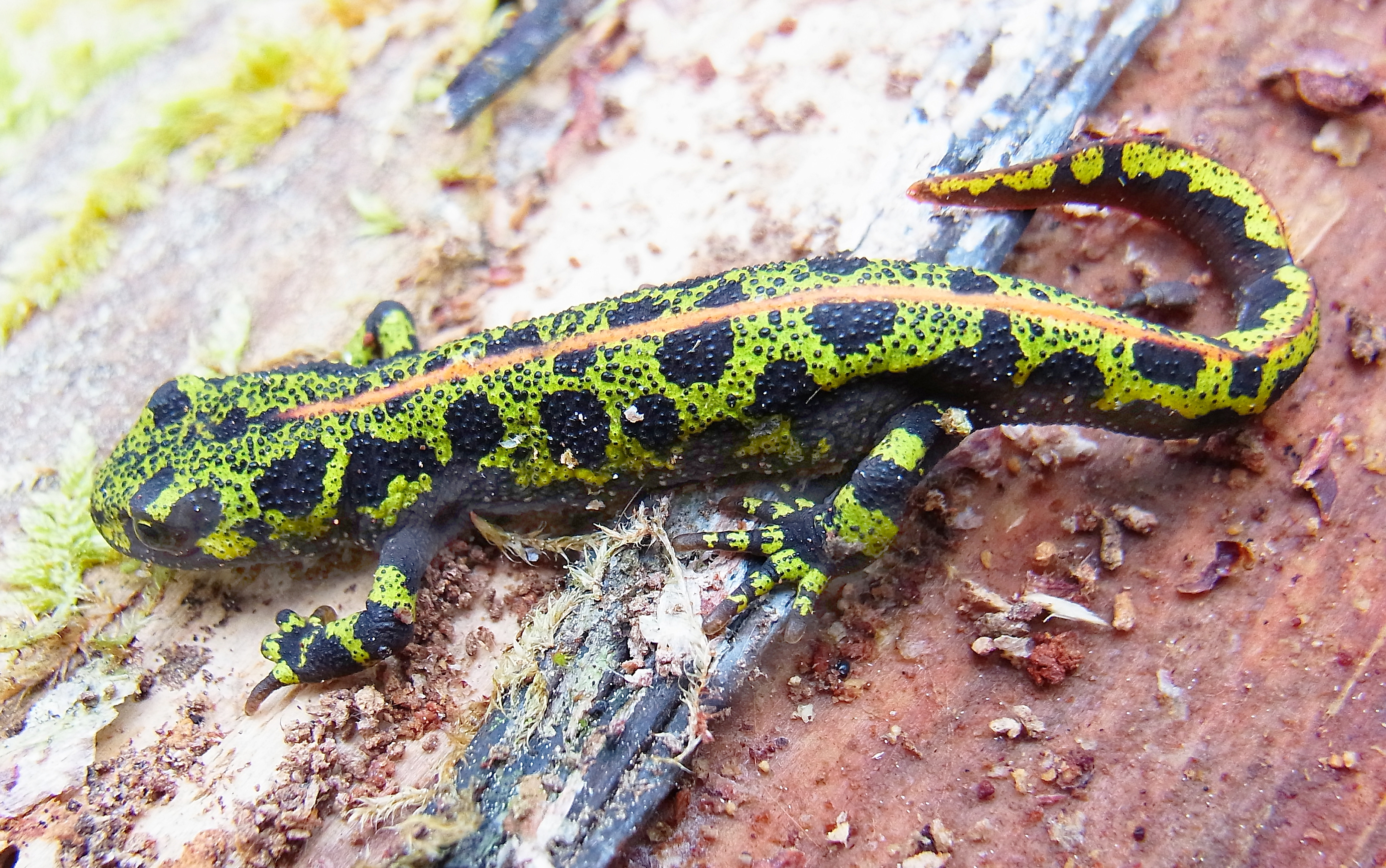 Triturus marmoratus female from France near Libourne